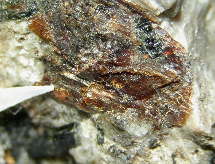 Seidozerite Locality: Pegmatite No. 58, Muruai and Uel'kuai rivers, Seidozero Lake, Lovozero Massif, Kola Peninsula, Murmanskaja Oblast', Northern Region, Russia Reddish-brown Seidozerite (analysed) Field of view 8 mm. Specimen and photo Leon Hupperichs.